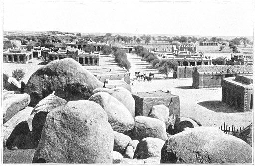 Overlooking the town of Zinder (1906) L. Roserot de Melin In het gebied van het Tsadmeer met de expeditie Tilho De Aarde en haar volken, 1910 (Holland) Nedersaksies: Algemeene aanblik van Zinder. L. Roserot de Melin In het gebied van het Tsadmeer met de expeditie Tilho De Aarde en haar volken, 1910